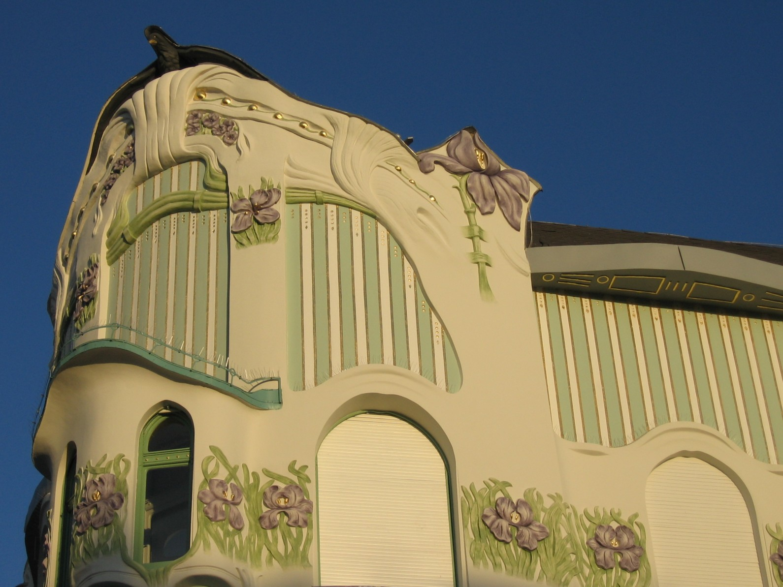 Reök Palace, Szeged, Hungary